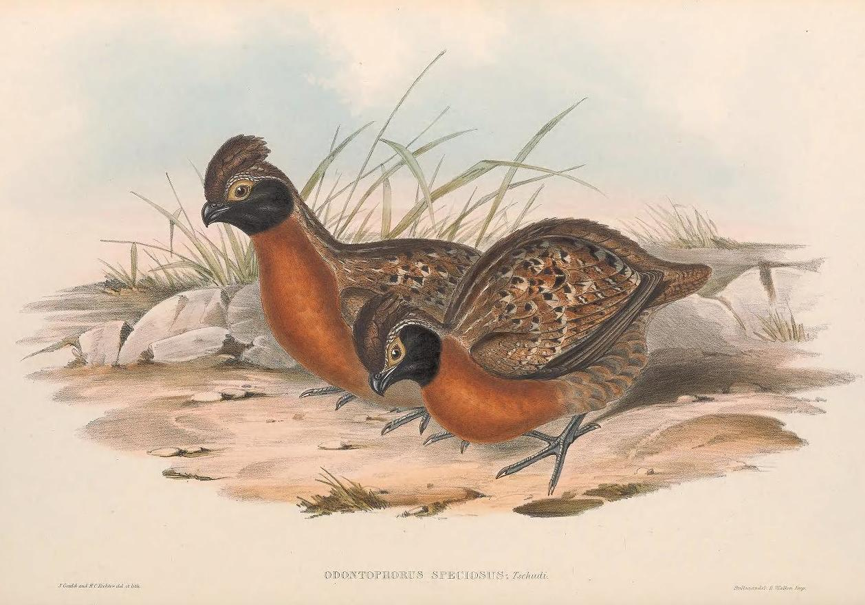 Odontophorus speciosus - A monograph of the Odontophorinæ, or, Partridges of America